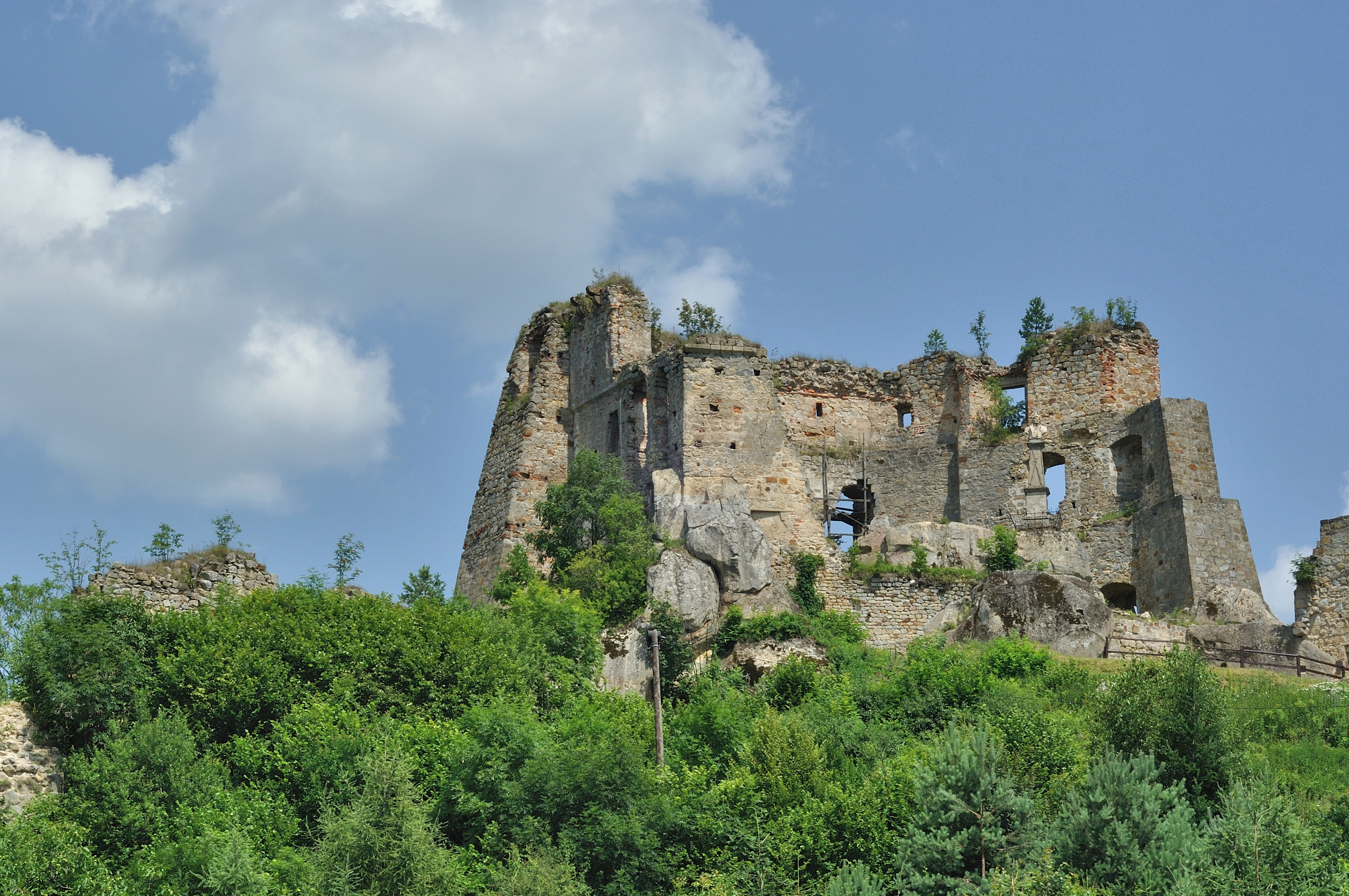 Kamieniec Castle in Odrzykoń, Poland